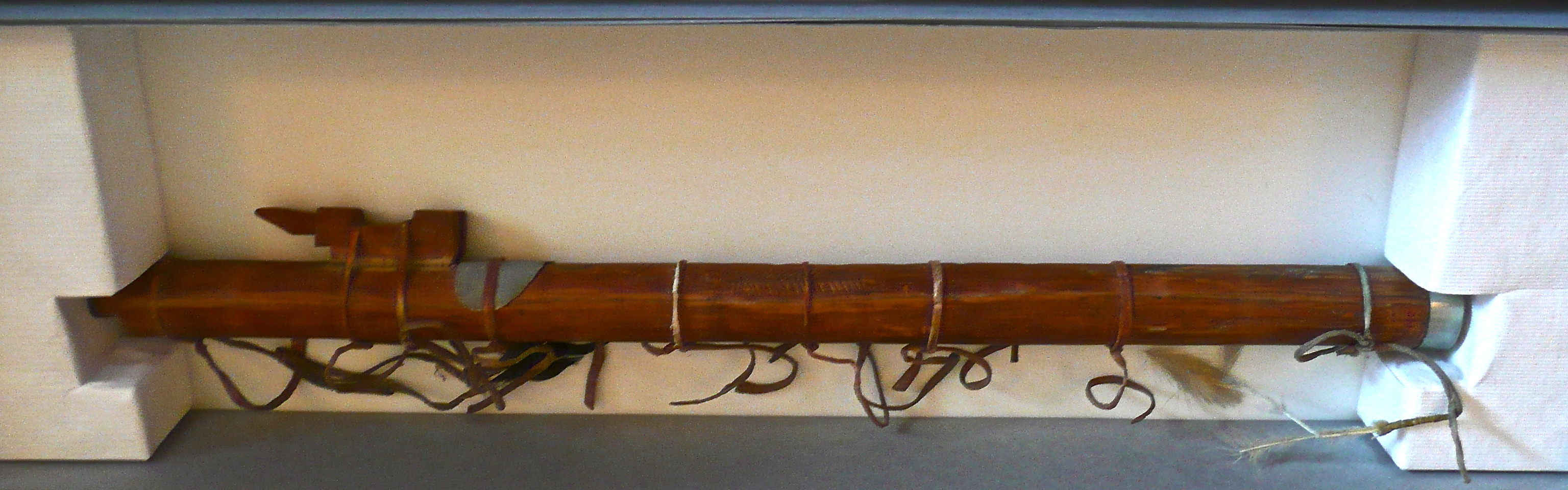 Cheyenne courting flute, displayed at the "Native by Native" event at the Library of Congress, Oct. 27, 2012. Part of the Dayton C. Miller flute collection. Record ID: DCM 0150